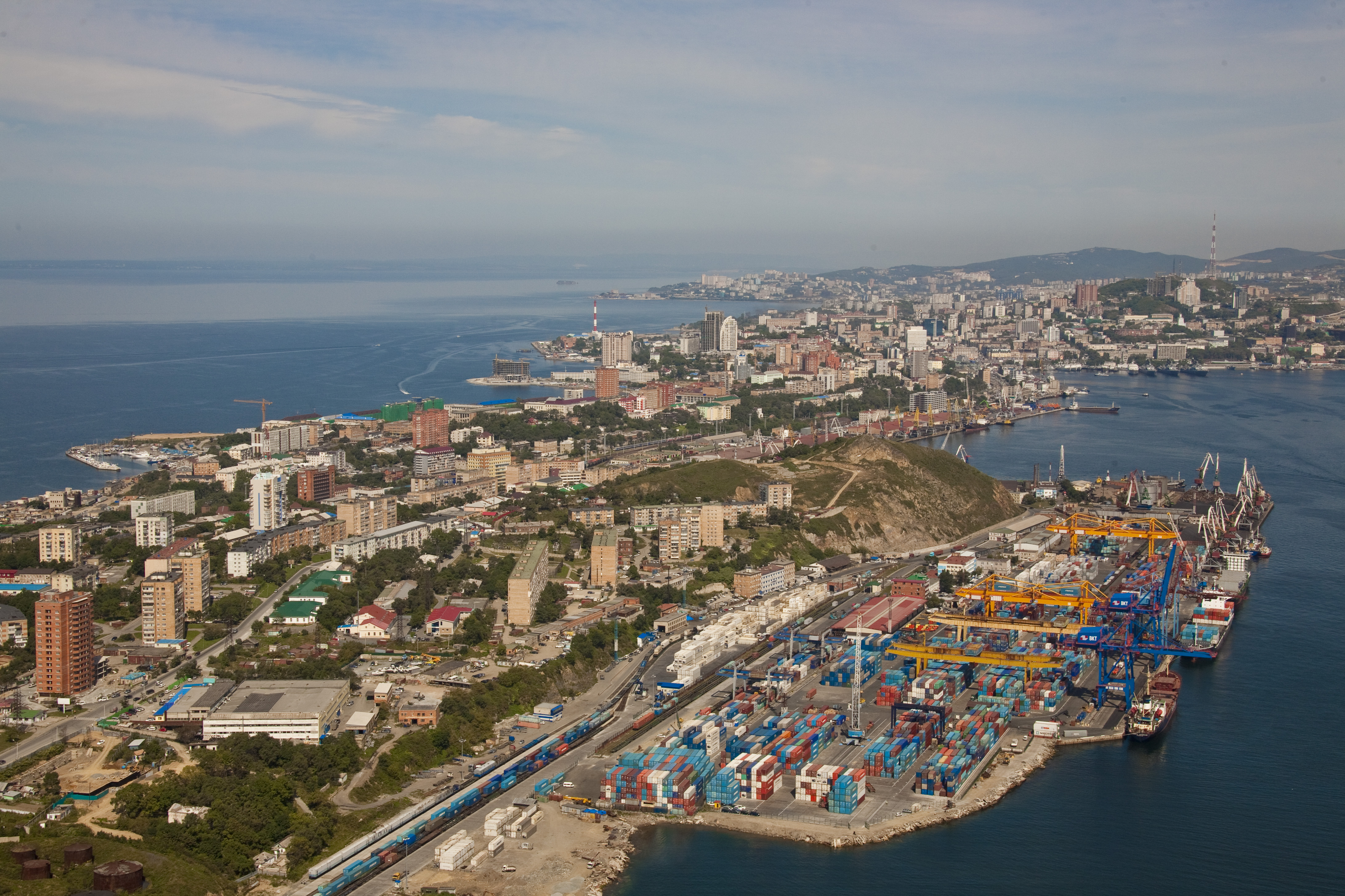 Cape Egersheld, Vladivostok - view north towards city center